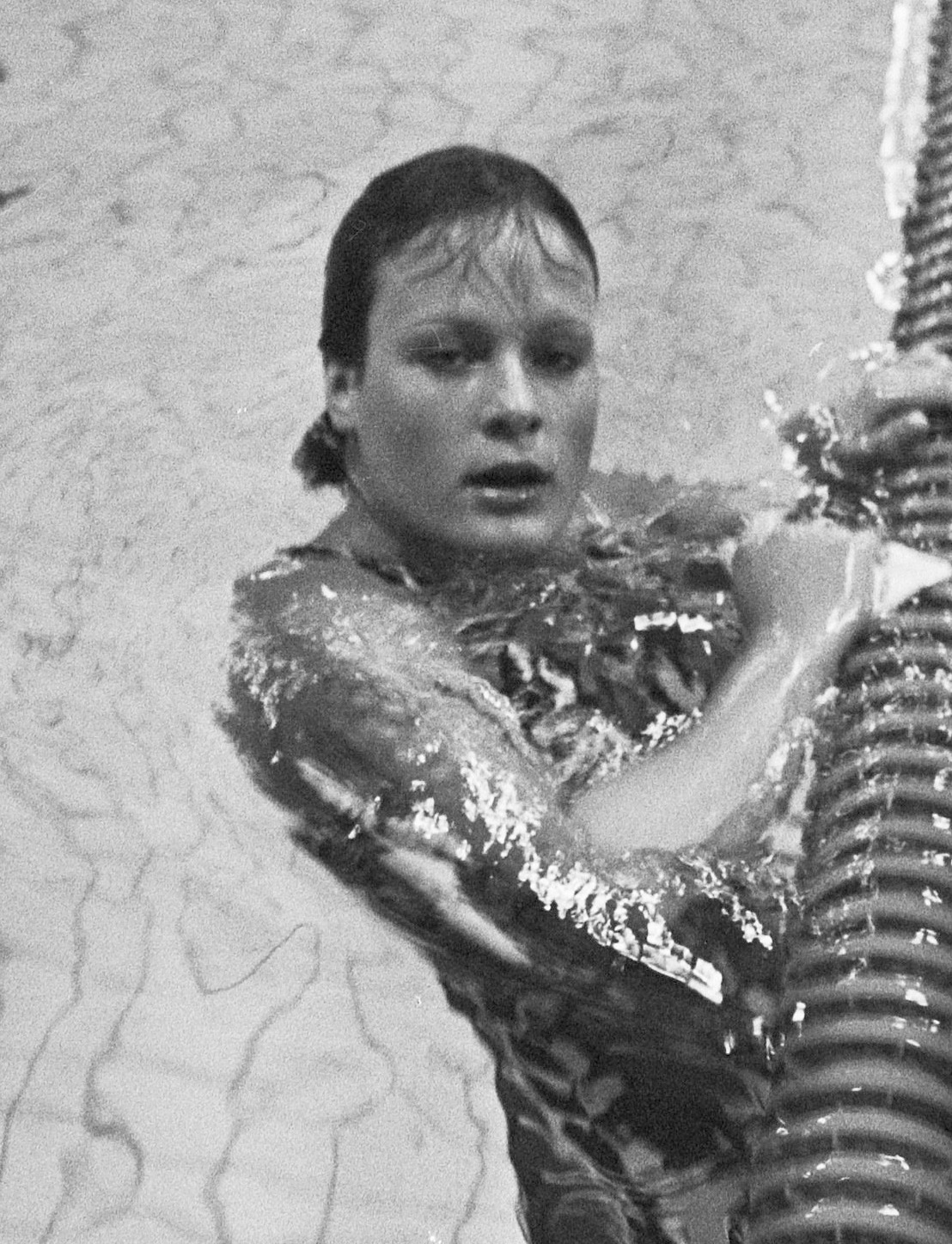 Diane Edelijn at national championships after 200m backstroke